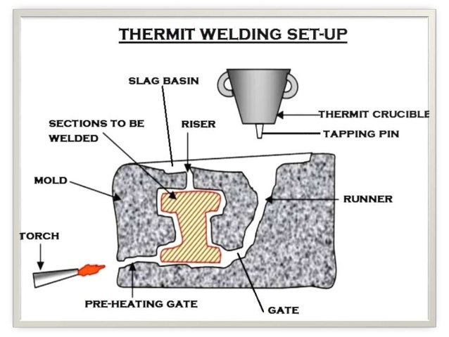 شکل -5